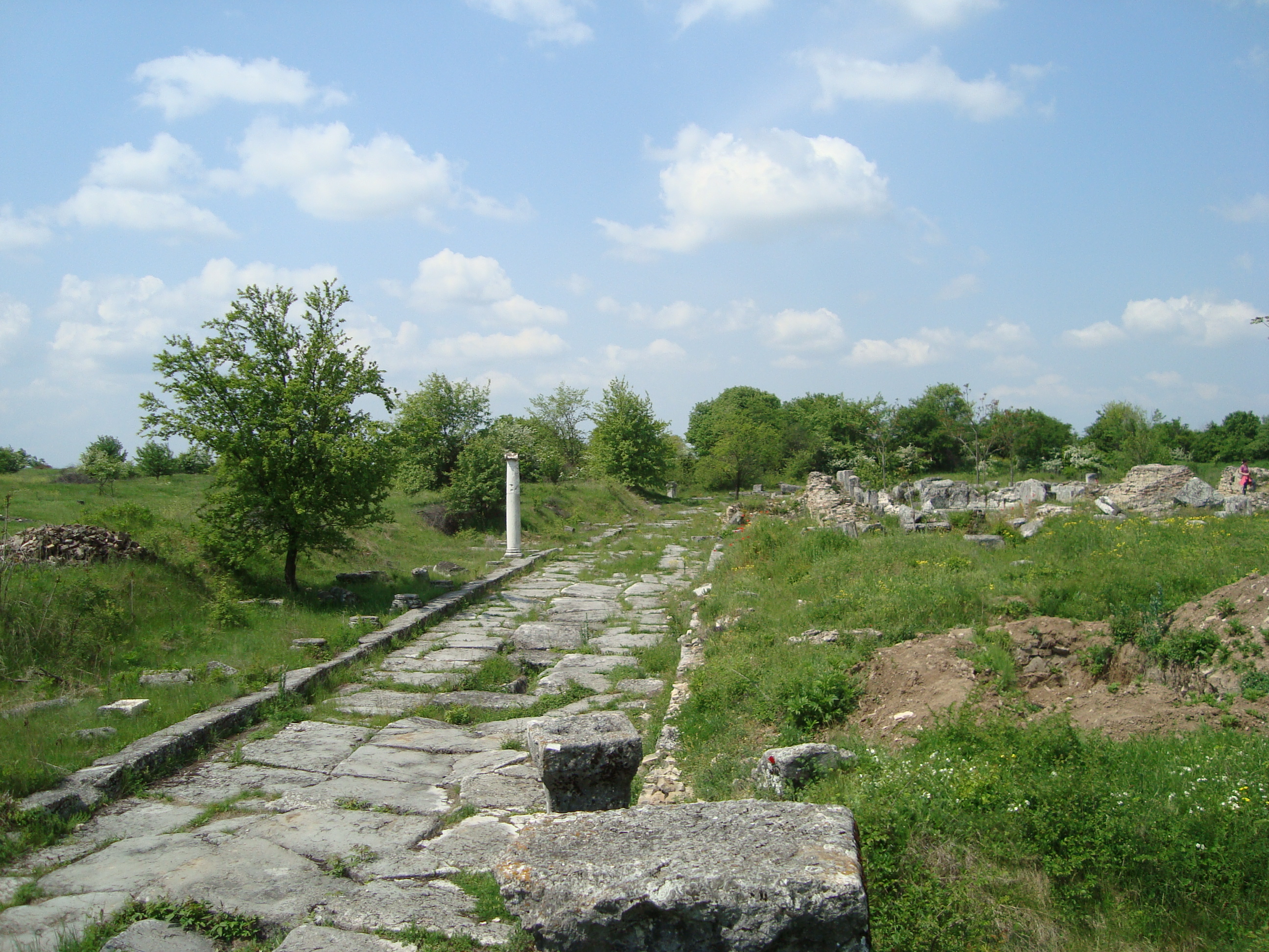 Nicopolis ad Istrum, Bulgaria